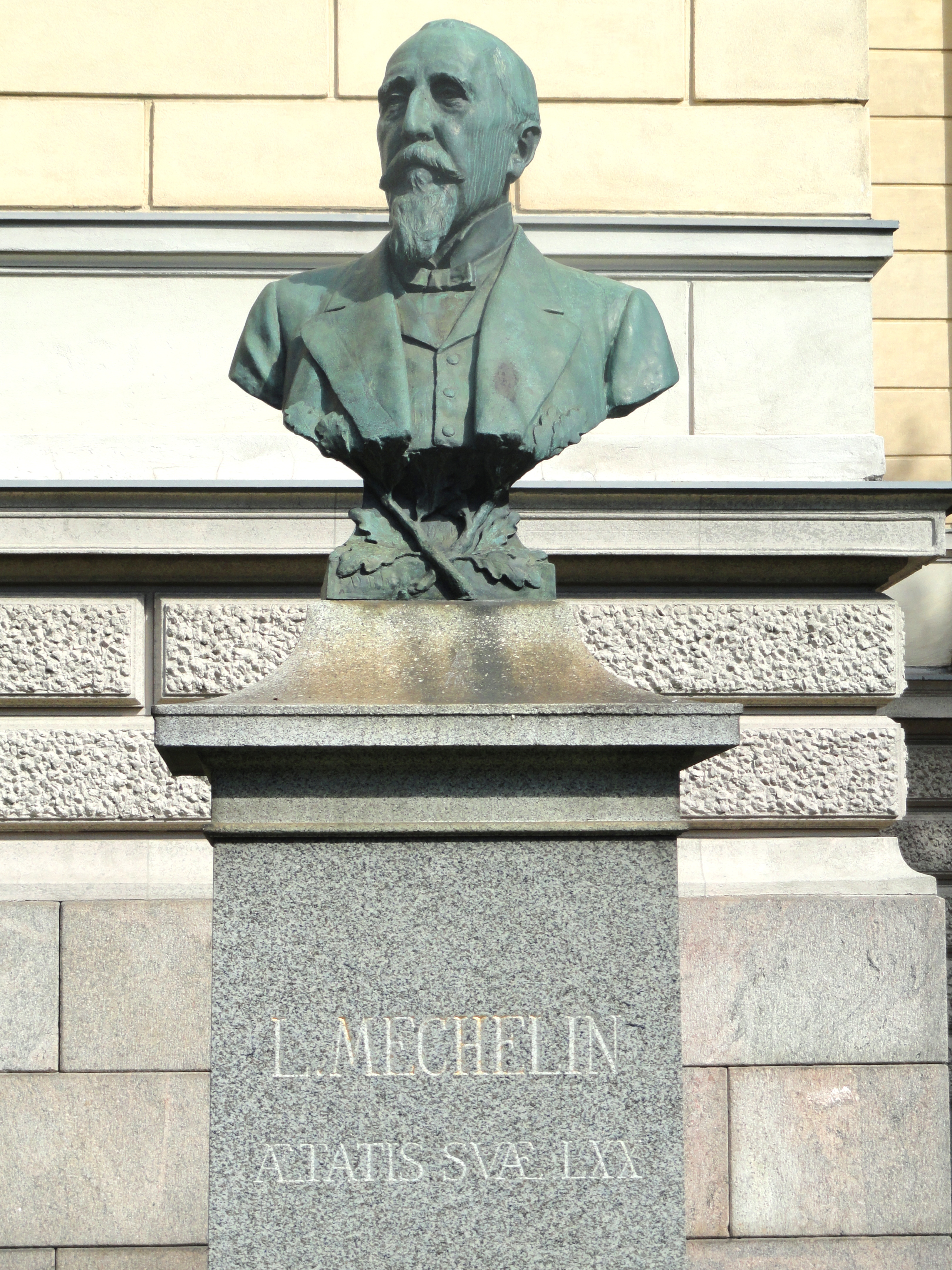 Bust of Leo Mechelin by Walter Runeberg (1838-1920) - in front of the House of the Estates, Helsinki, Finland. This artwork is now in the public domain because the artist died more than 70 years ago.